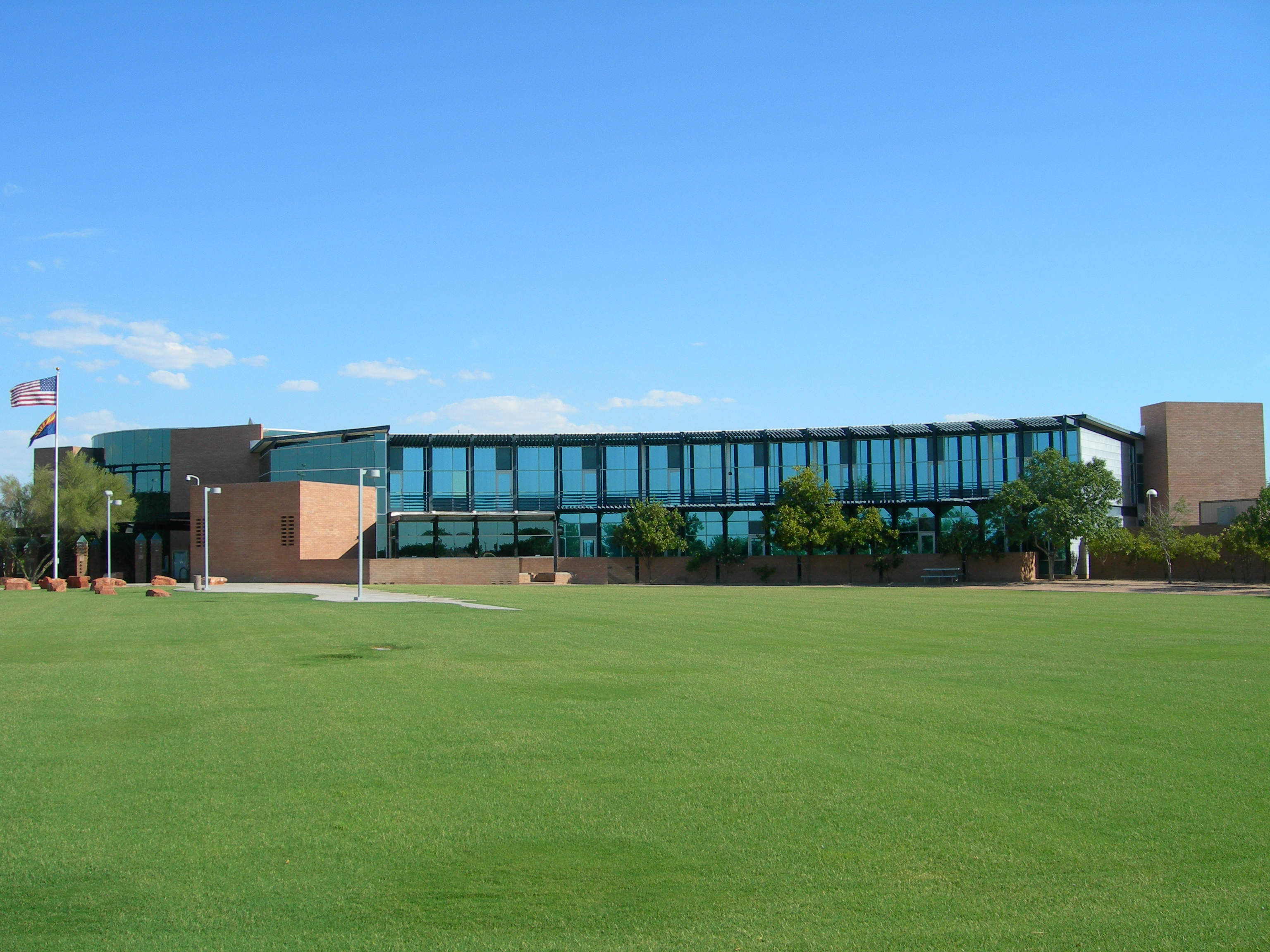 Municipal offices of the town of Gilbert, Arizona.